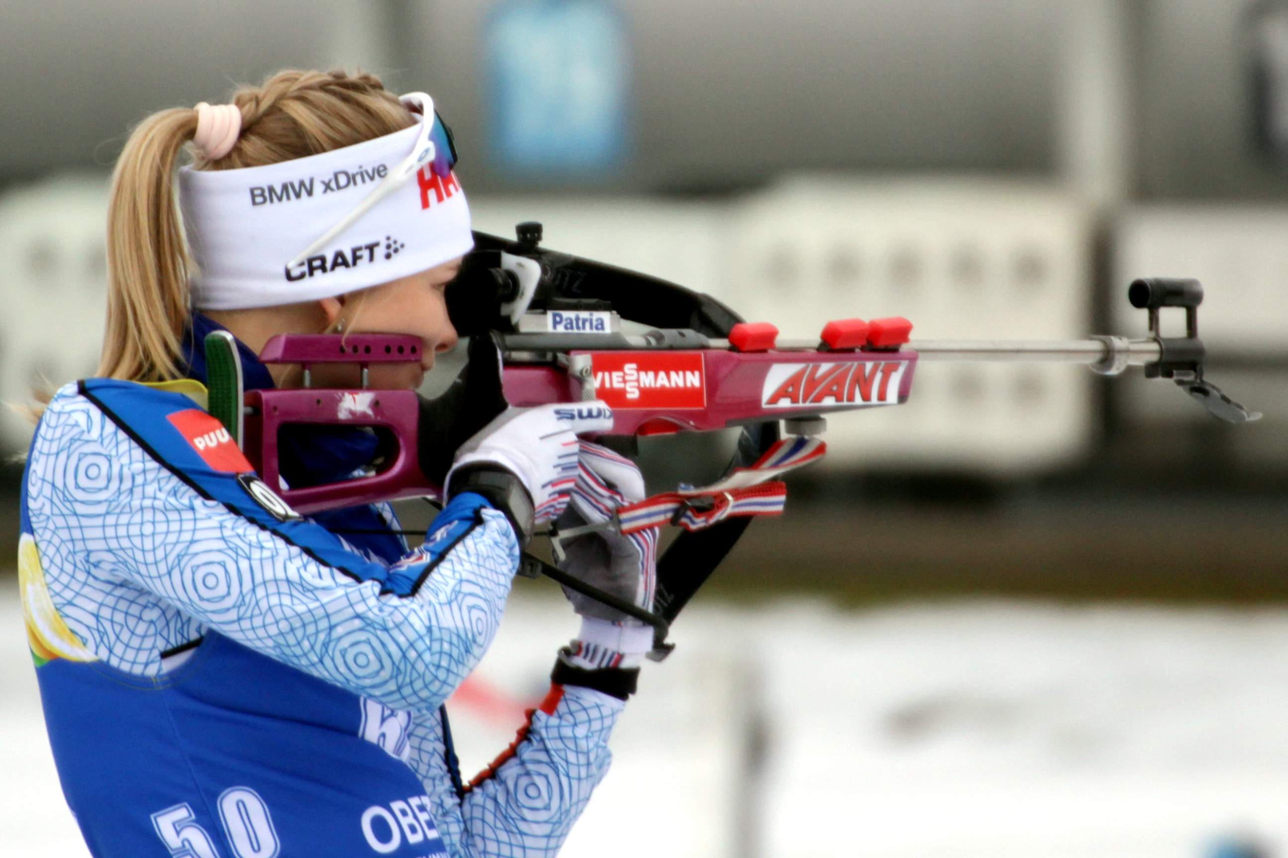 2018 Oberhof Biathlon World Cup - Pursuit Women